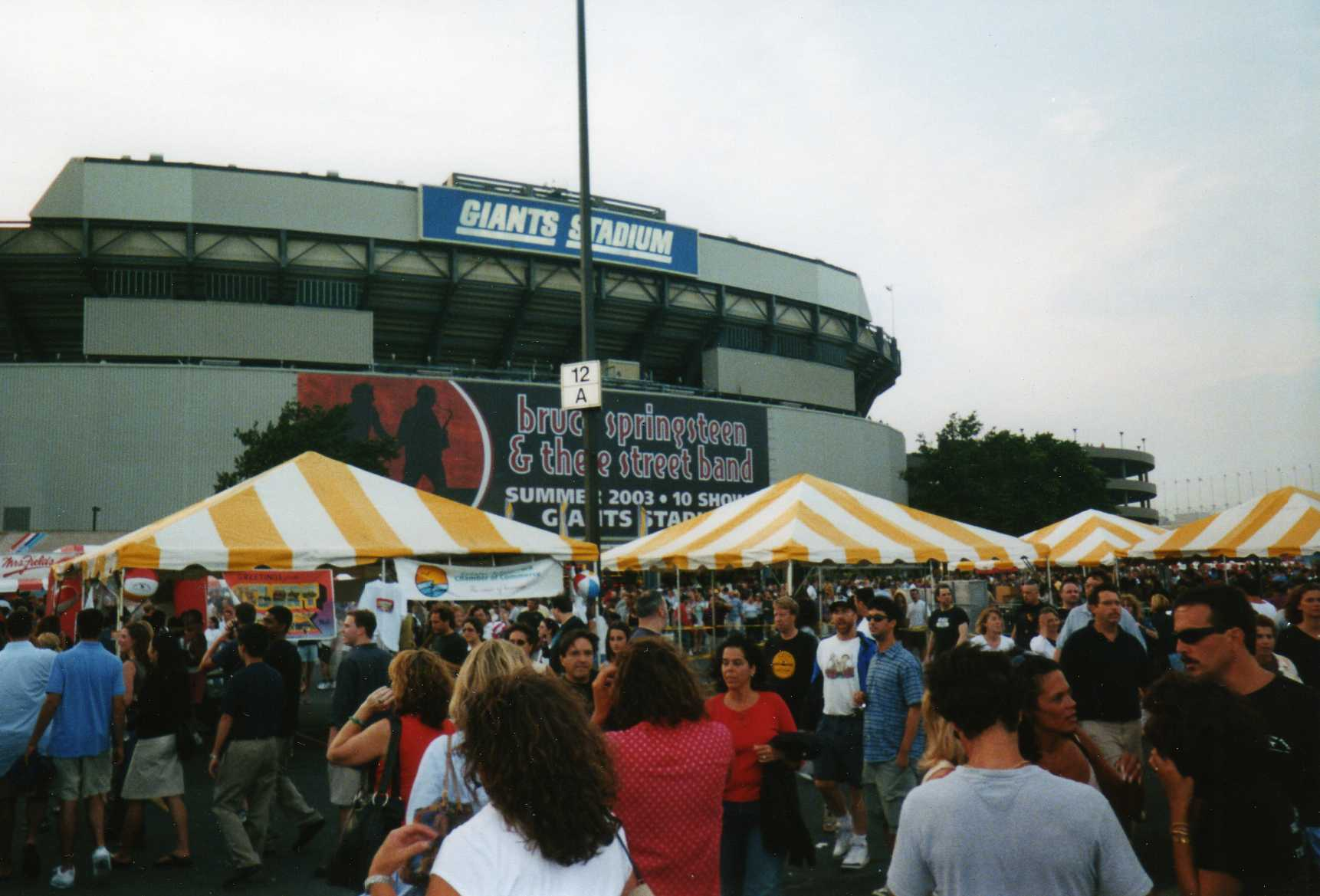 Bruce Springsteen's The Rising Tour parking lot scene. Taken by me, 21 July 2003.